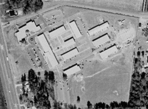 Aerial image of the Sparks campus at Wallace Community College